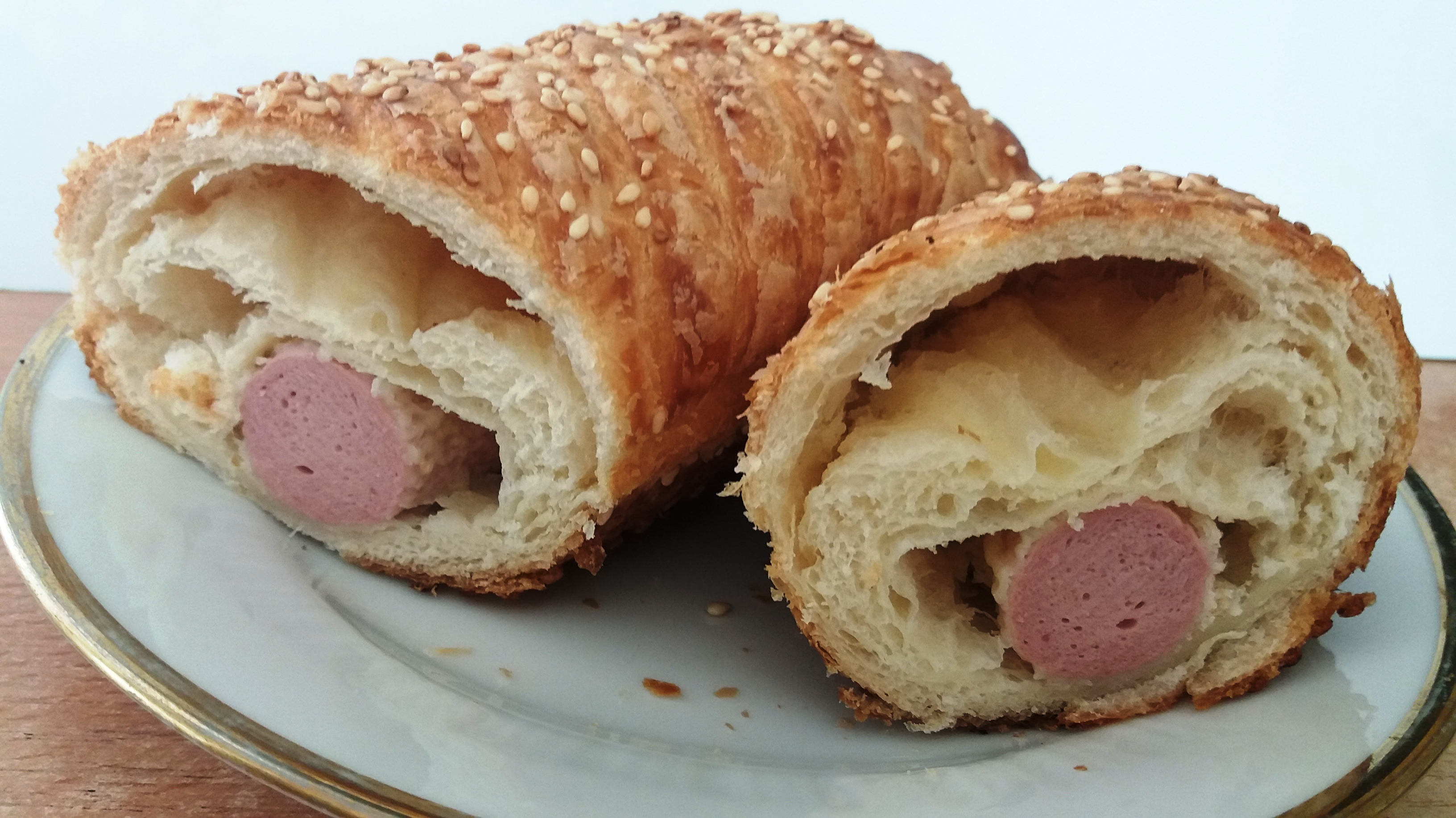 Boiled sausage in puff pastry